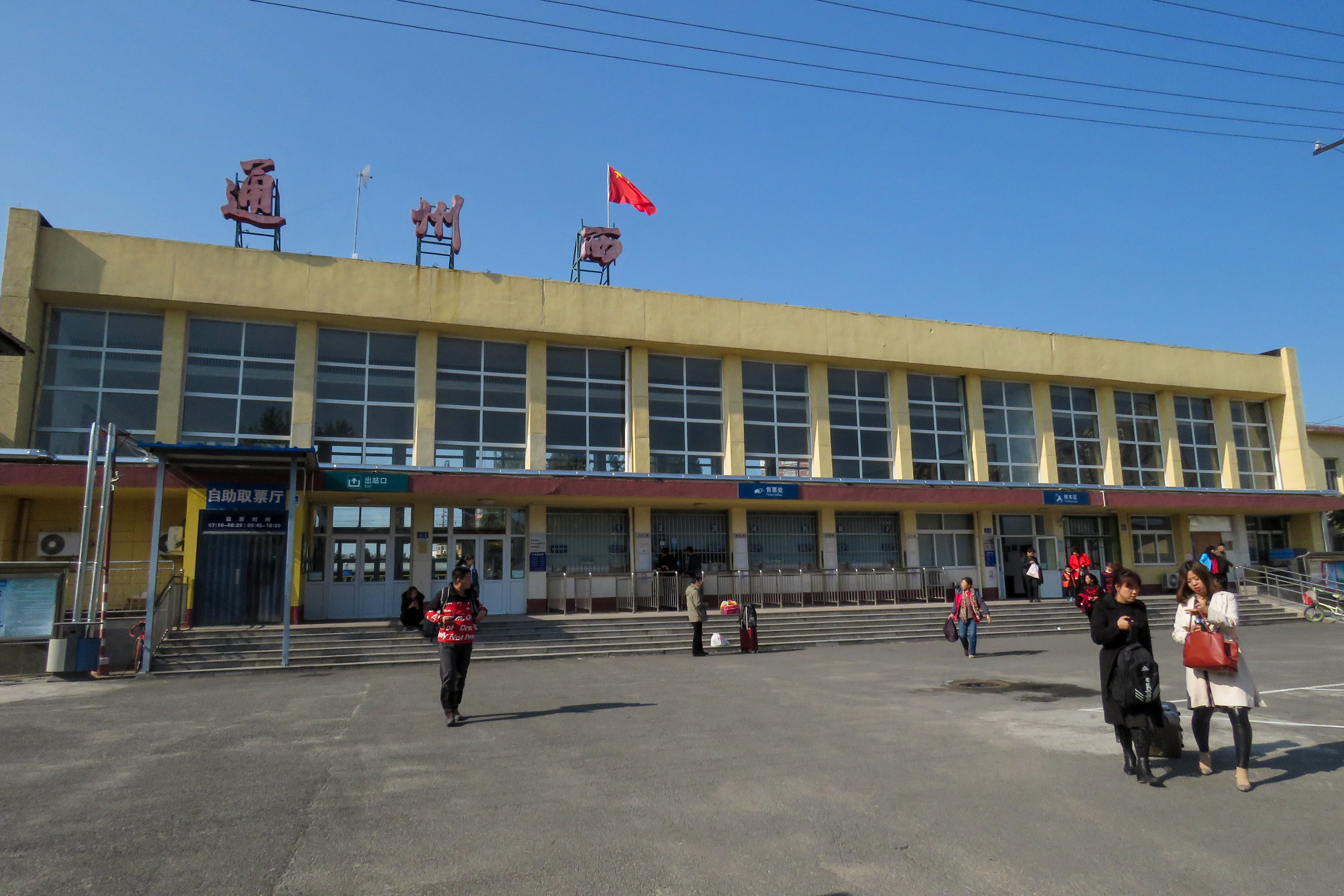 The yard is not big enough for a full view.